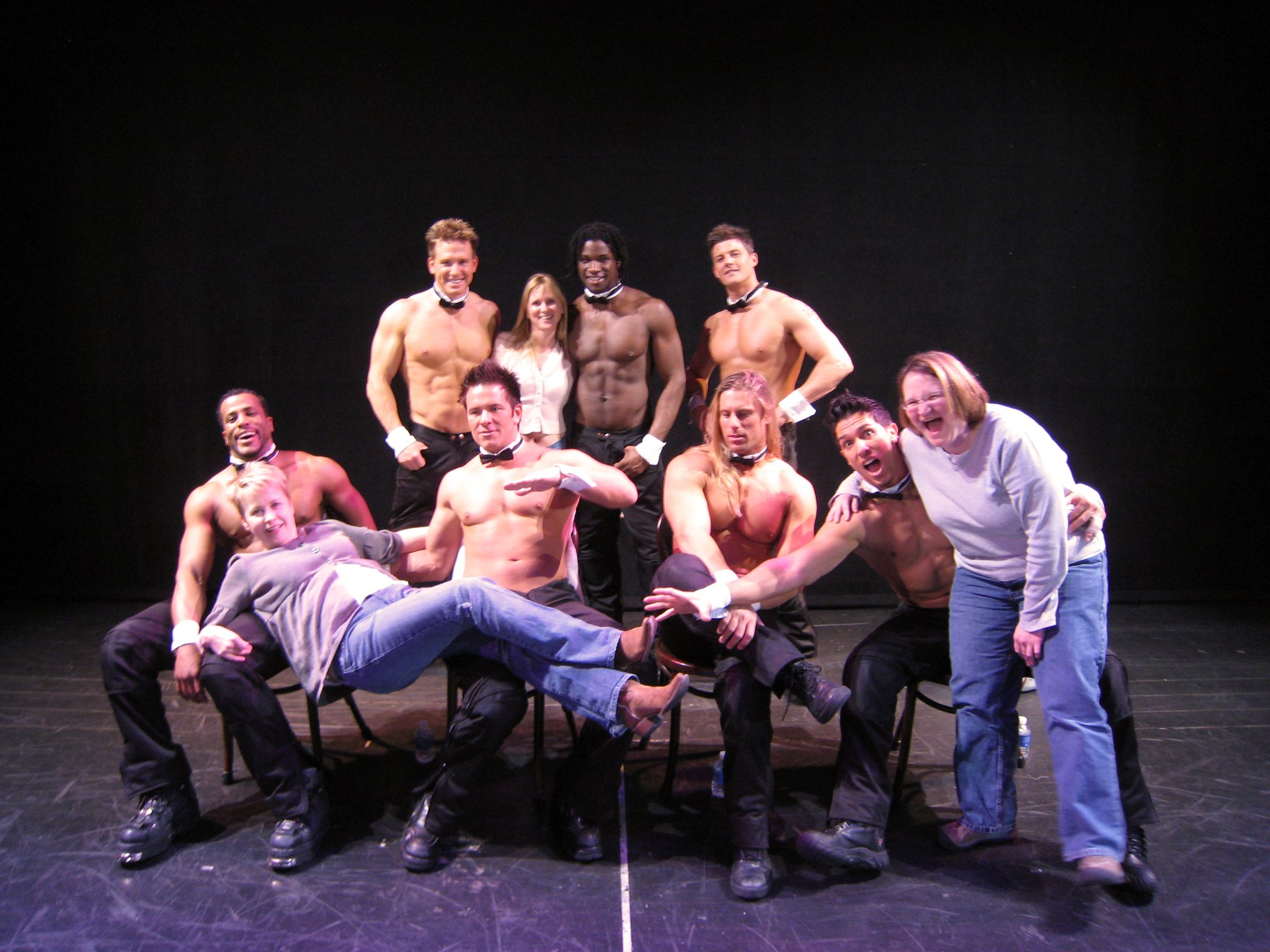 I laughed so hard I was crying during the whole show while the other ladies in the room were seriously into them. Our photo with the Chippendales after the show. Annemari proceeded to fall off their laps. Las Vegas NV, 2/15/2008